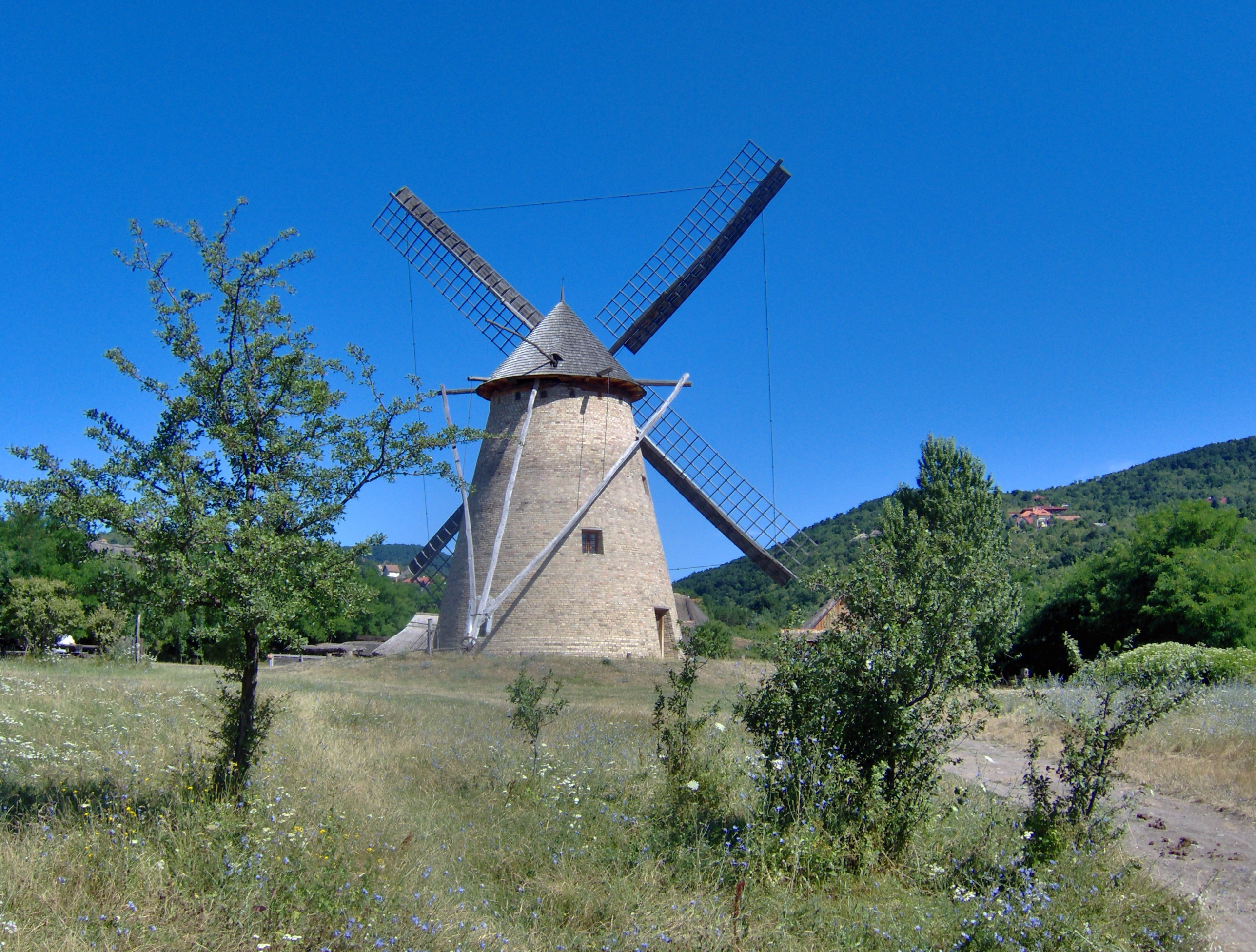 Szentendre Open Air Museum